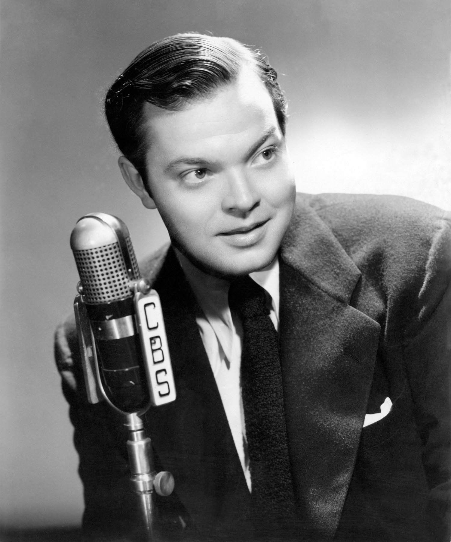 Portrait photograph of Orson Welles, promoting the premiere broadcast of Orson Welles and his Mercury Theater (Orson Welles Show) September 15, 1941, on CBS Radio